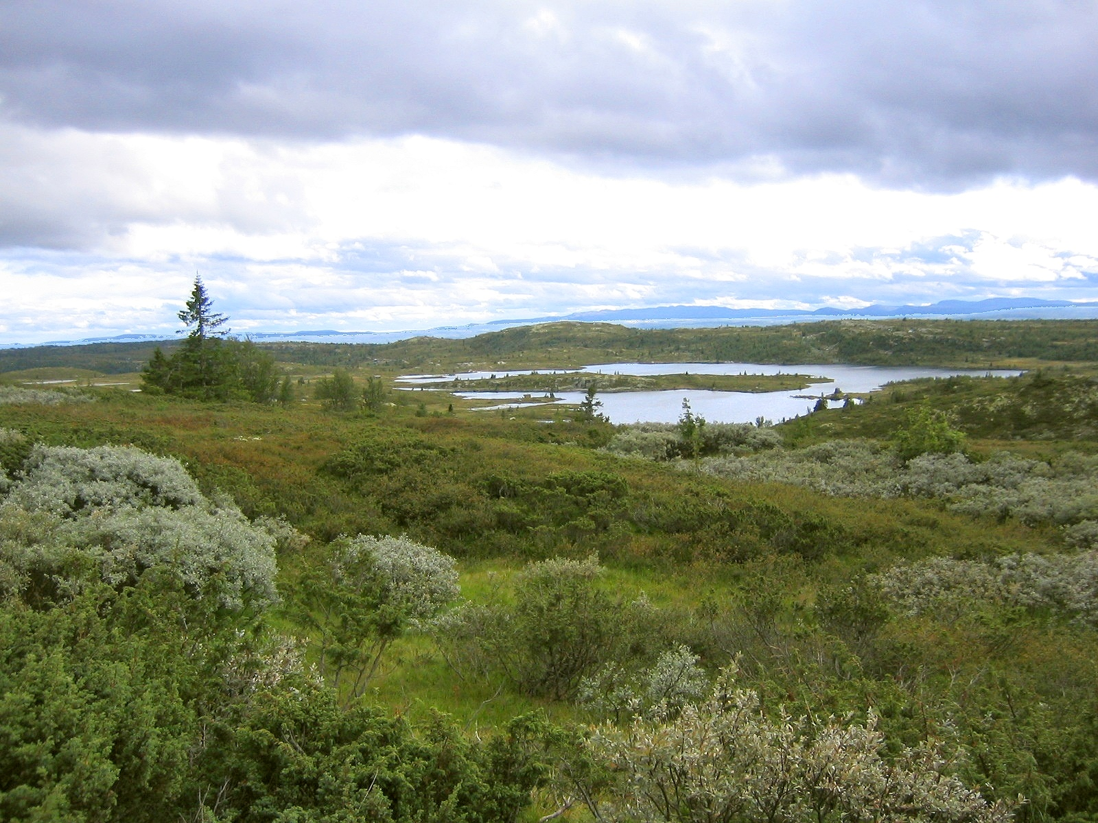 Peer Gynt Vegen, Norway